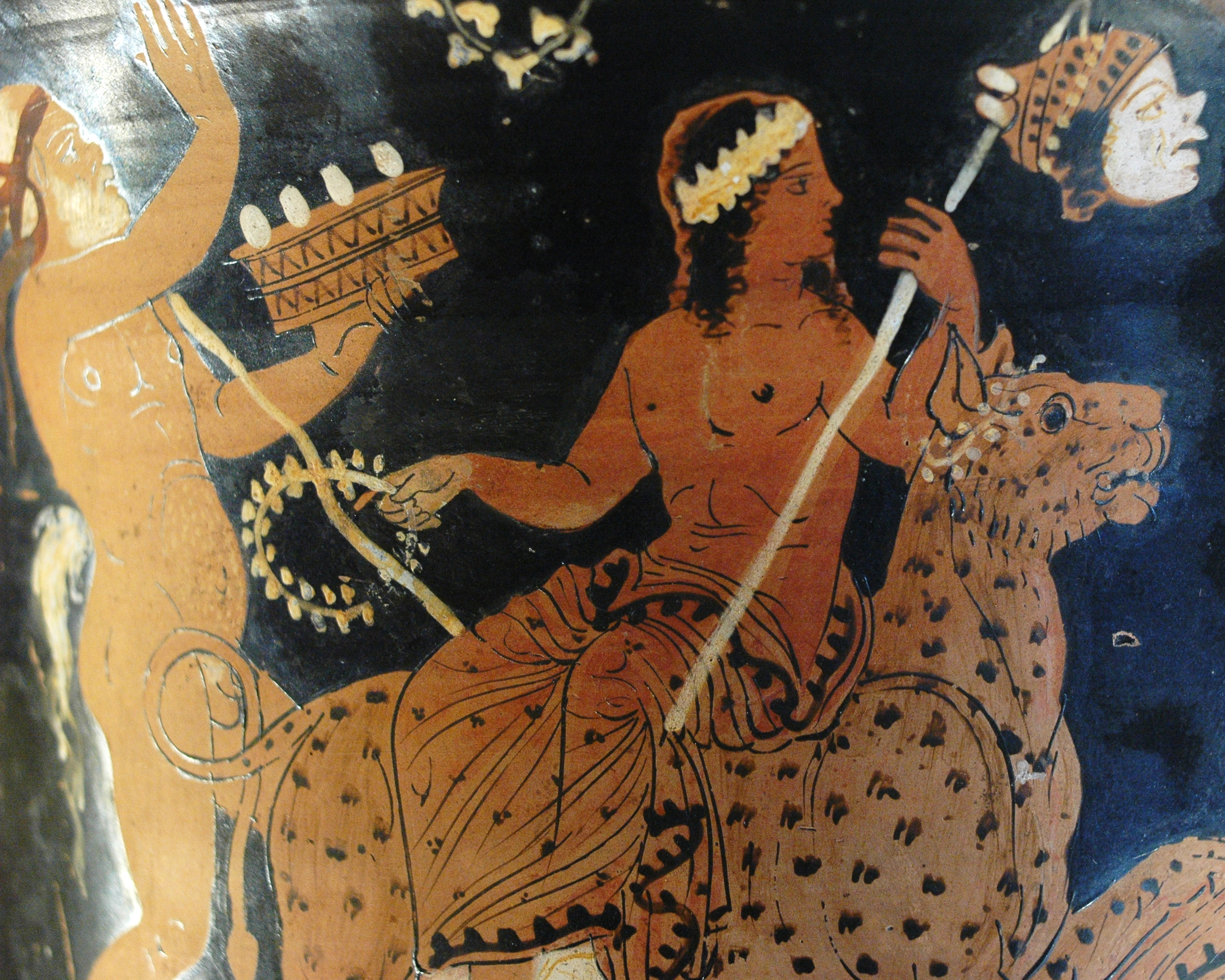 Dionysos on a panther's back; on the left, a papposilenus holding a tambourine. Side A from a red-figure bell-shaped crater, ca. 370 BC, found in Paestum.